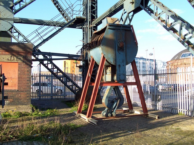 Crane hook. One of several large hooks stored under the Finnieston Crane 454146.